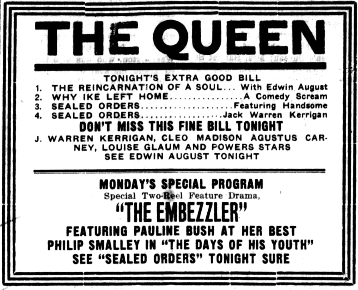 The Embezzler is a 1914 American silent short drama film directed by Allan Dwan and featuring Lon Chaney. This is a contemporary text advert for the film.